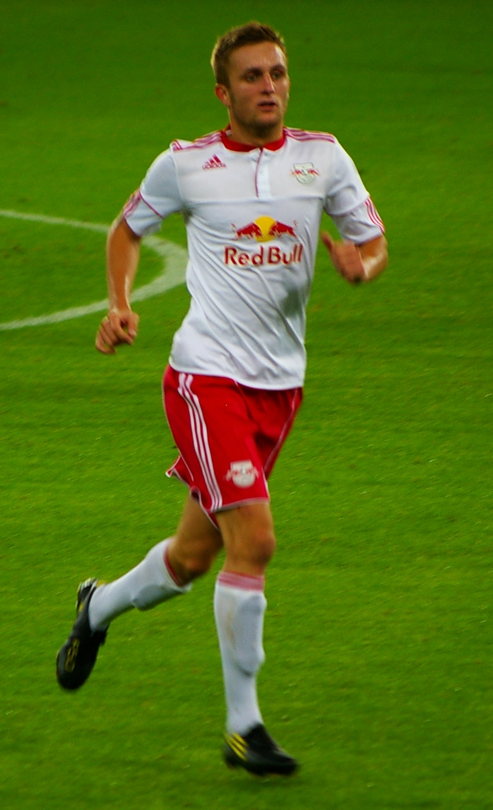 Jakob Jantscher midfielder FC Red Bull Salzburg